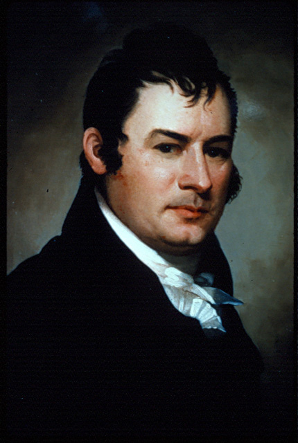 Westel Willoughby, Jr., New York Congressman